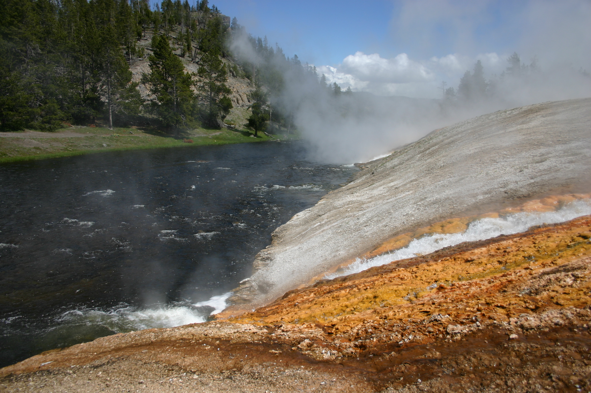 The heavy runoff from Excelsior Geyser to the Firehole River. Heat-loving (thermophilic) bacteria stain the riverbank into the orange colour.